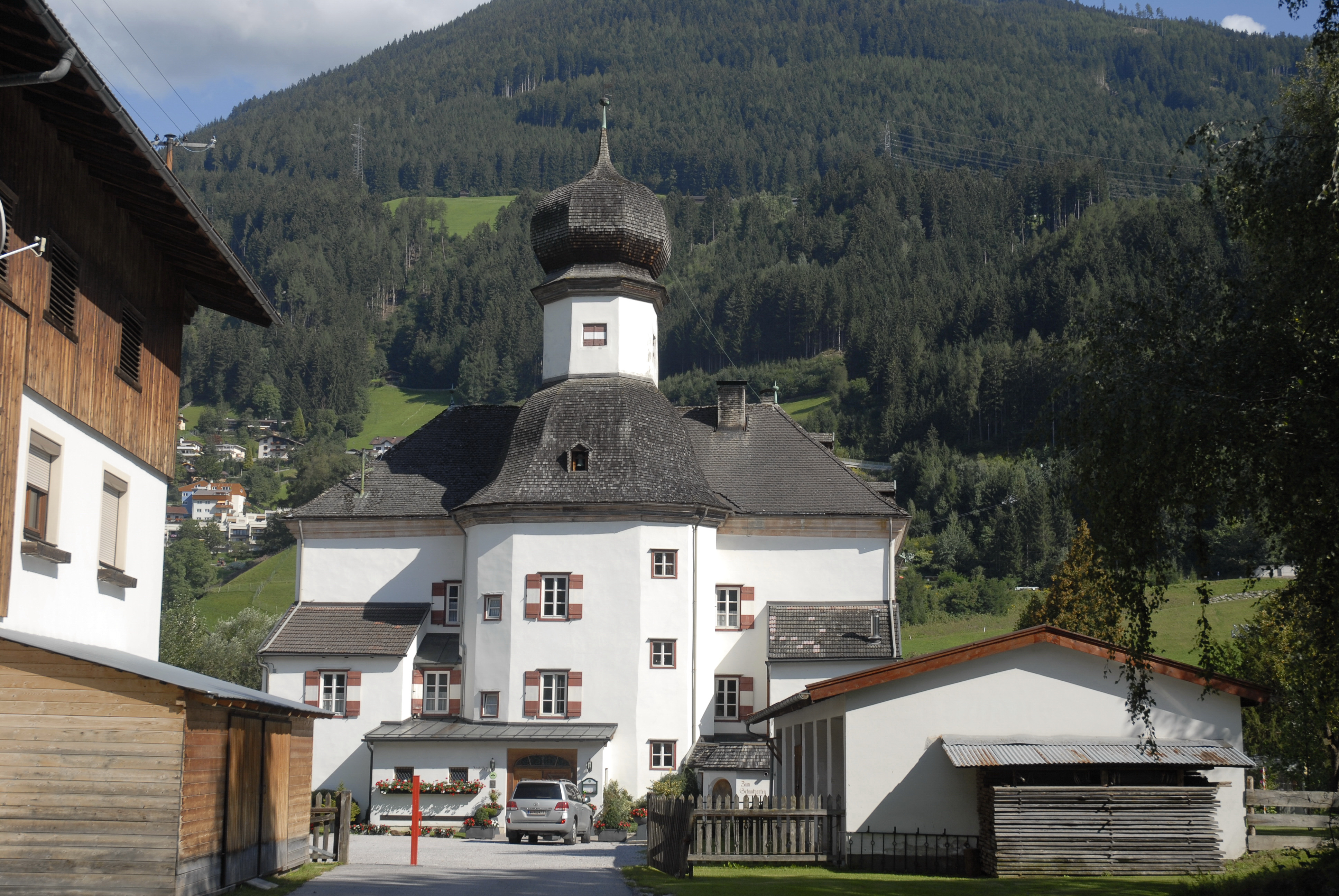 Ansitz Mitterhart in Vomp This media shows the remarkable cultural object in the Austrian state of Tyrol listed by the Tyrolean Art Cadastre with the ID 14943. (on tirisMaps, pdf, more images on Commons, Wikidata)